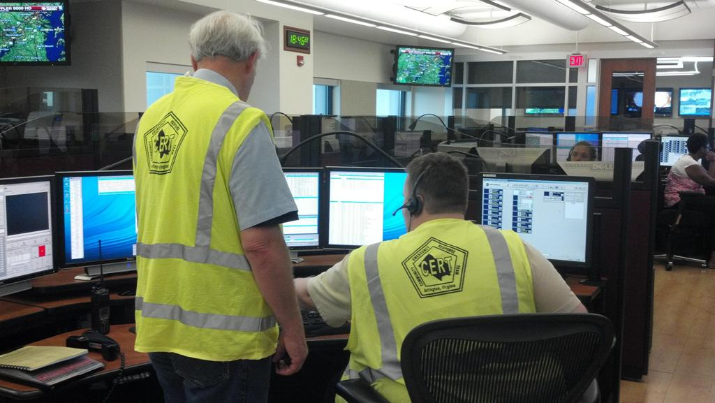 Members of the Arlington Community Emergency Response Team (CERT) provided back-up support to the County's 911 system during the problems experienced by the June 29, 2012 derecho storms. (Photo courtesy of Arlington CERT)